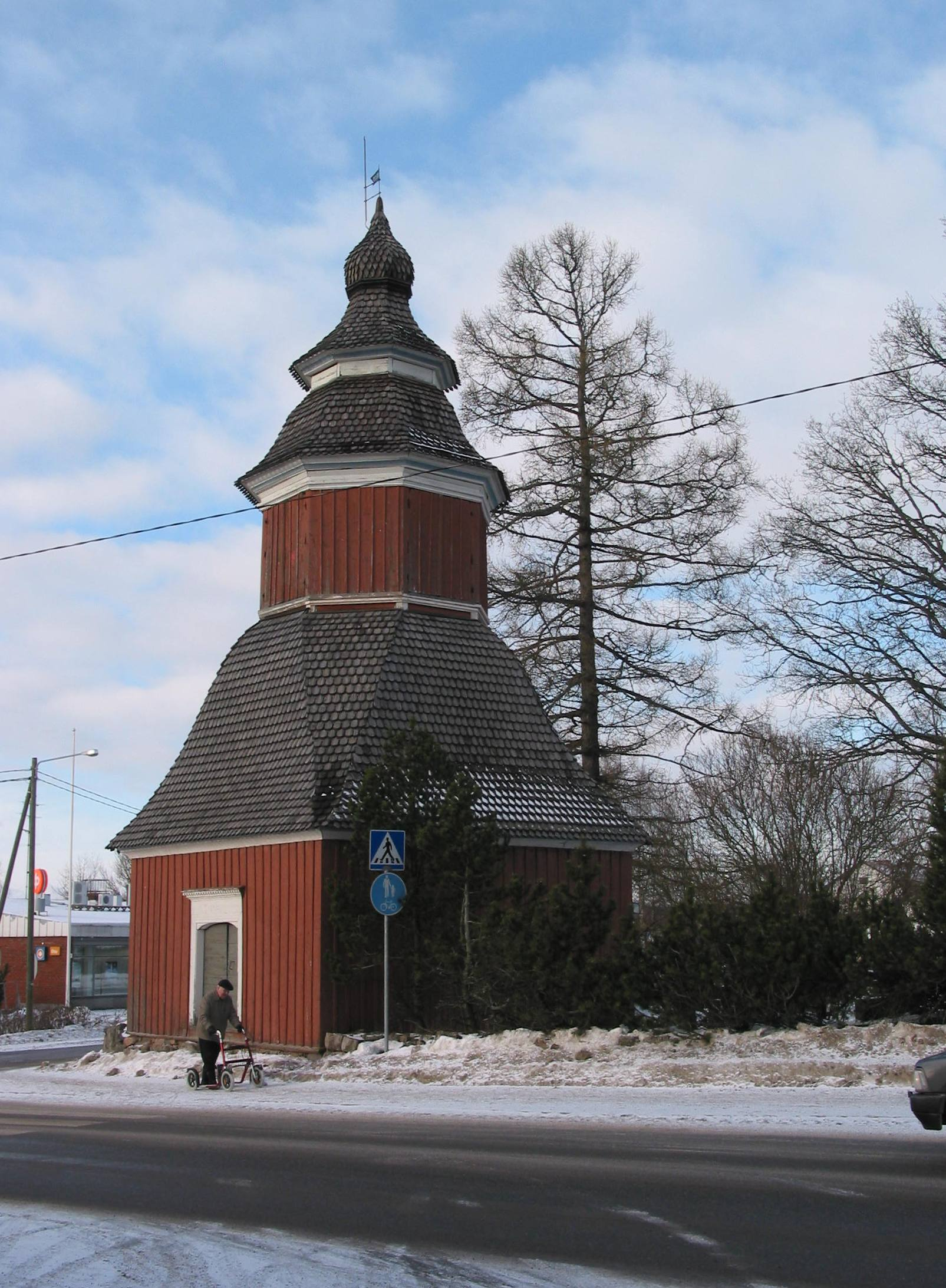 Bell tower, Pusula Church, Nummi-Pusula, Finland